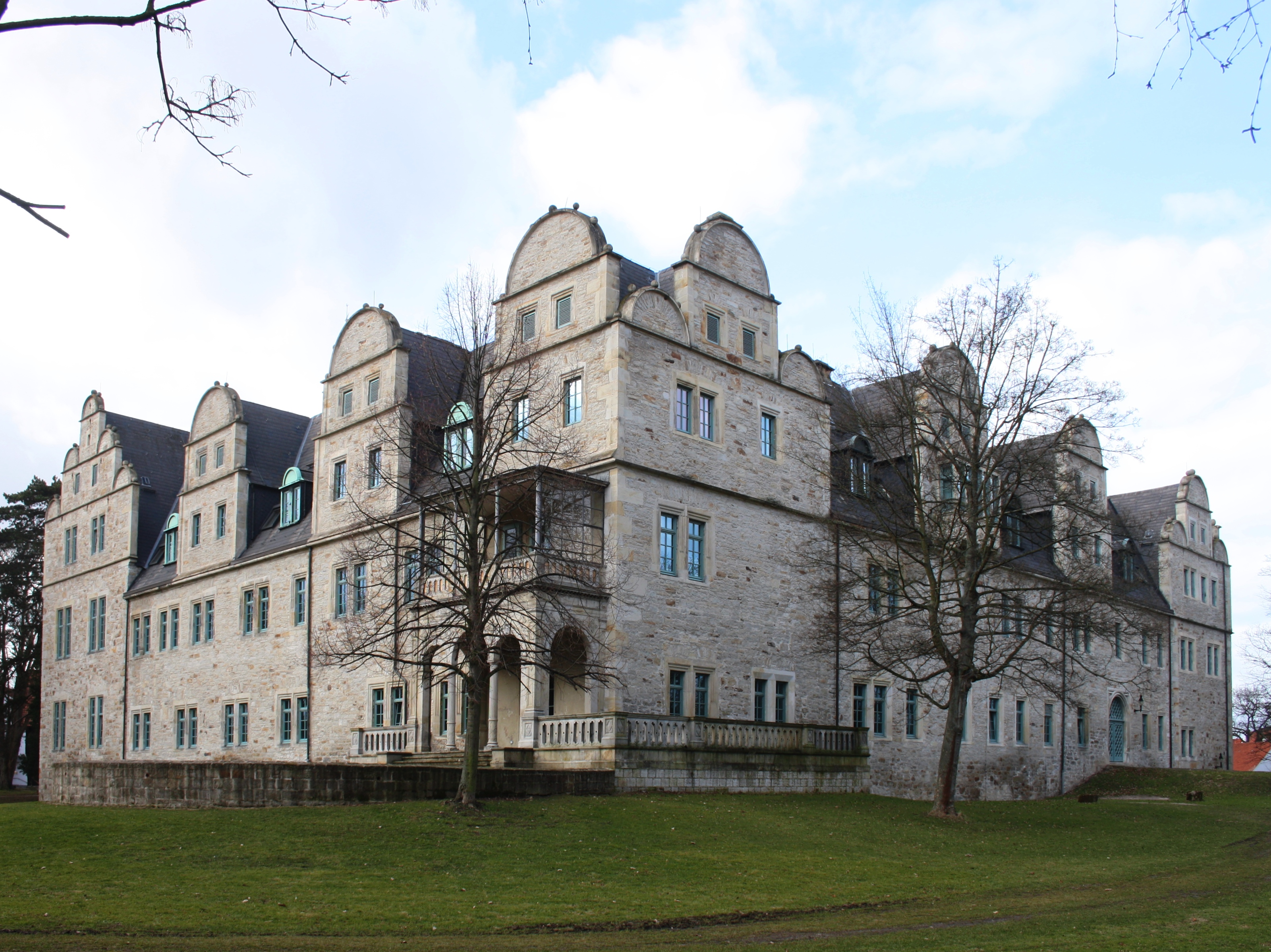 Castle in Stadthagen, Germany. View from South-East.